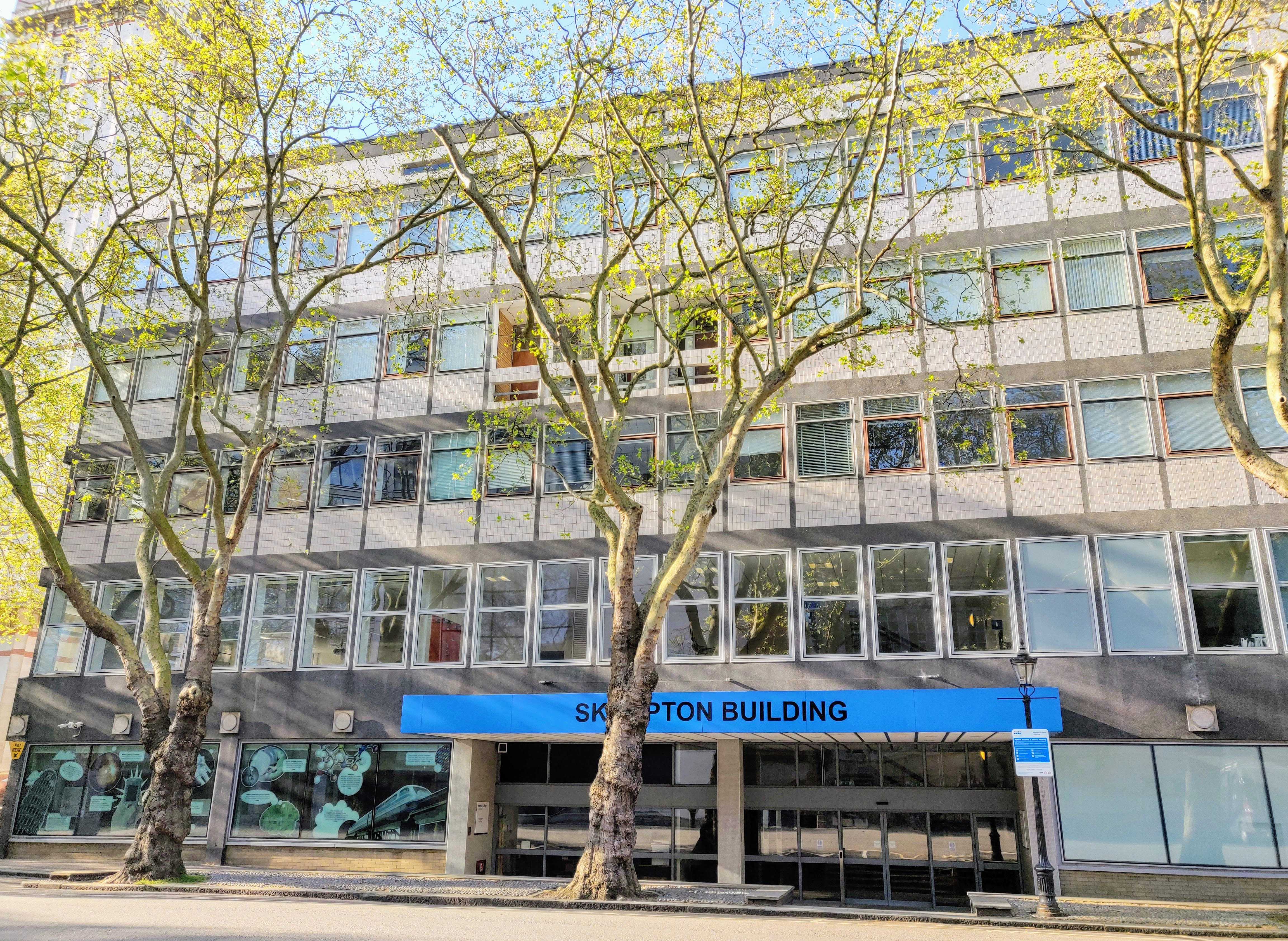 The Skempton Building, named after Alec Skempton, is home the Department of Civil and Environmental Engineering at Imperial College London. It's main entrance is along Imperial College Road, across from the remnants of the Royal College of Science, RCS 1